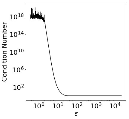 When using radial basis function interpolation to approximate functions, one often must tune a parameter. This plot shows that the matrix will become ill-conditioned if the parameter is too small.